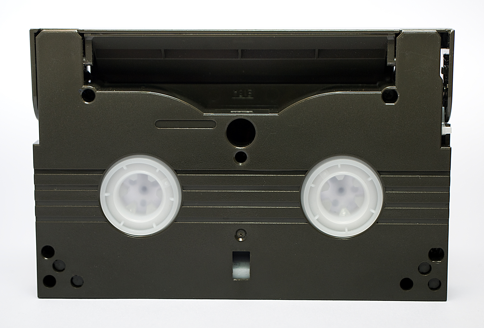 Back of an 8mm video cassette.